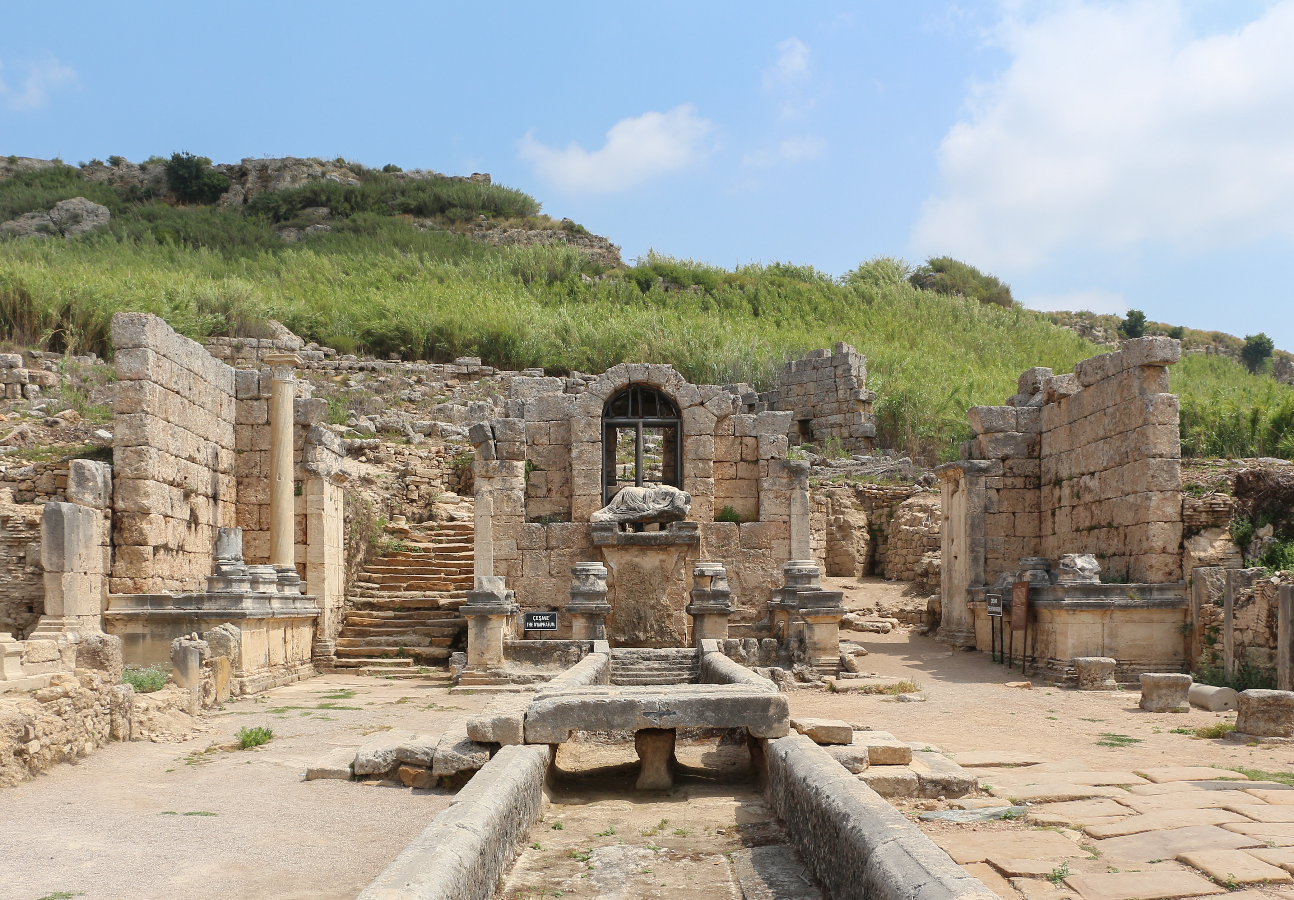 Nymphaeum of Hadrian, Perge, Turkey